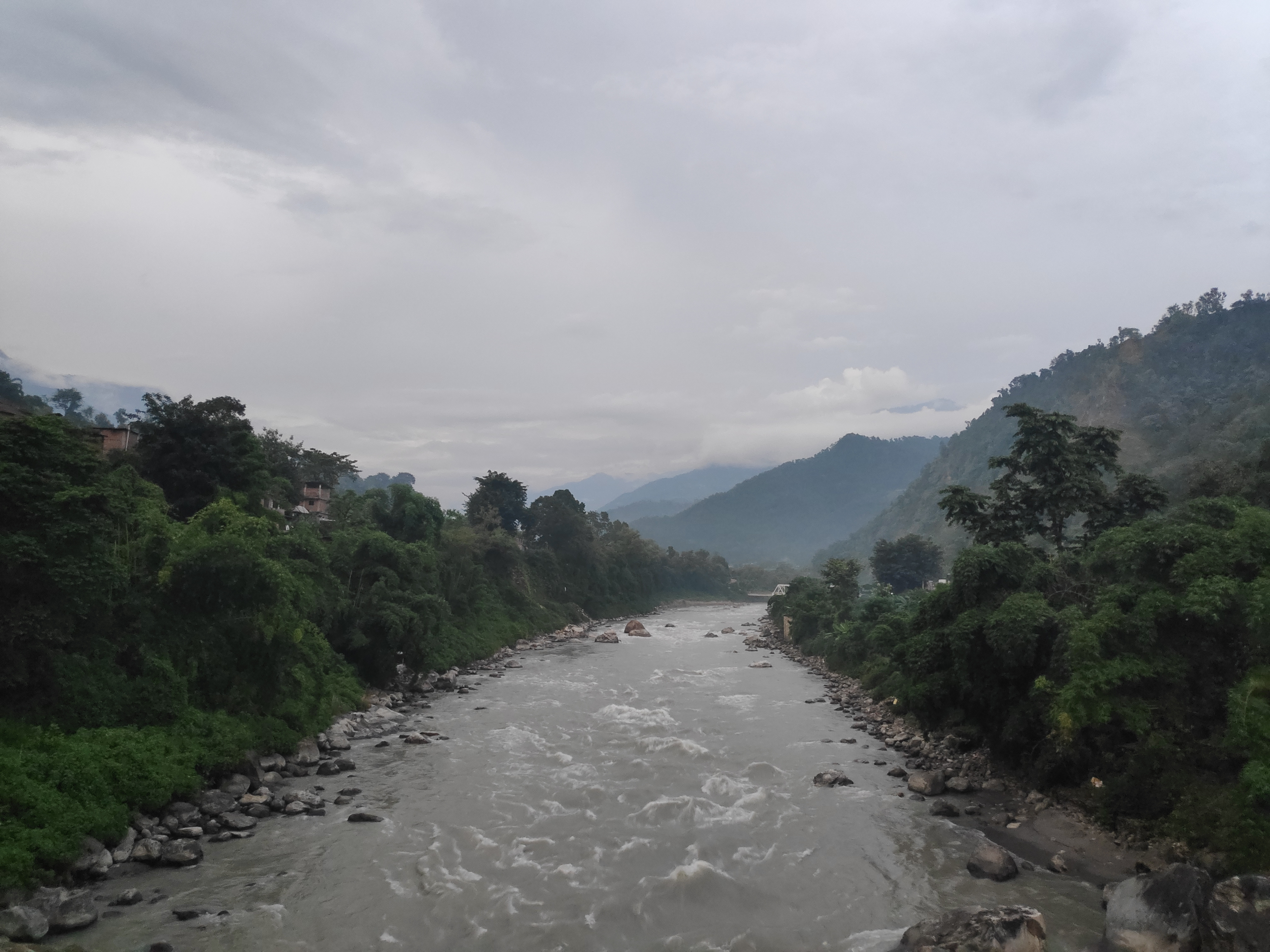 Budi Gandaki River.